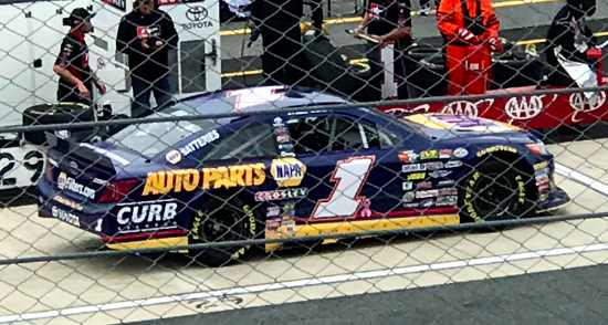 Photo of Derek Kraus on pit road at Dover International Speedway